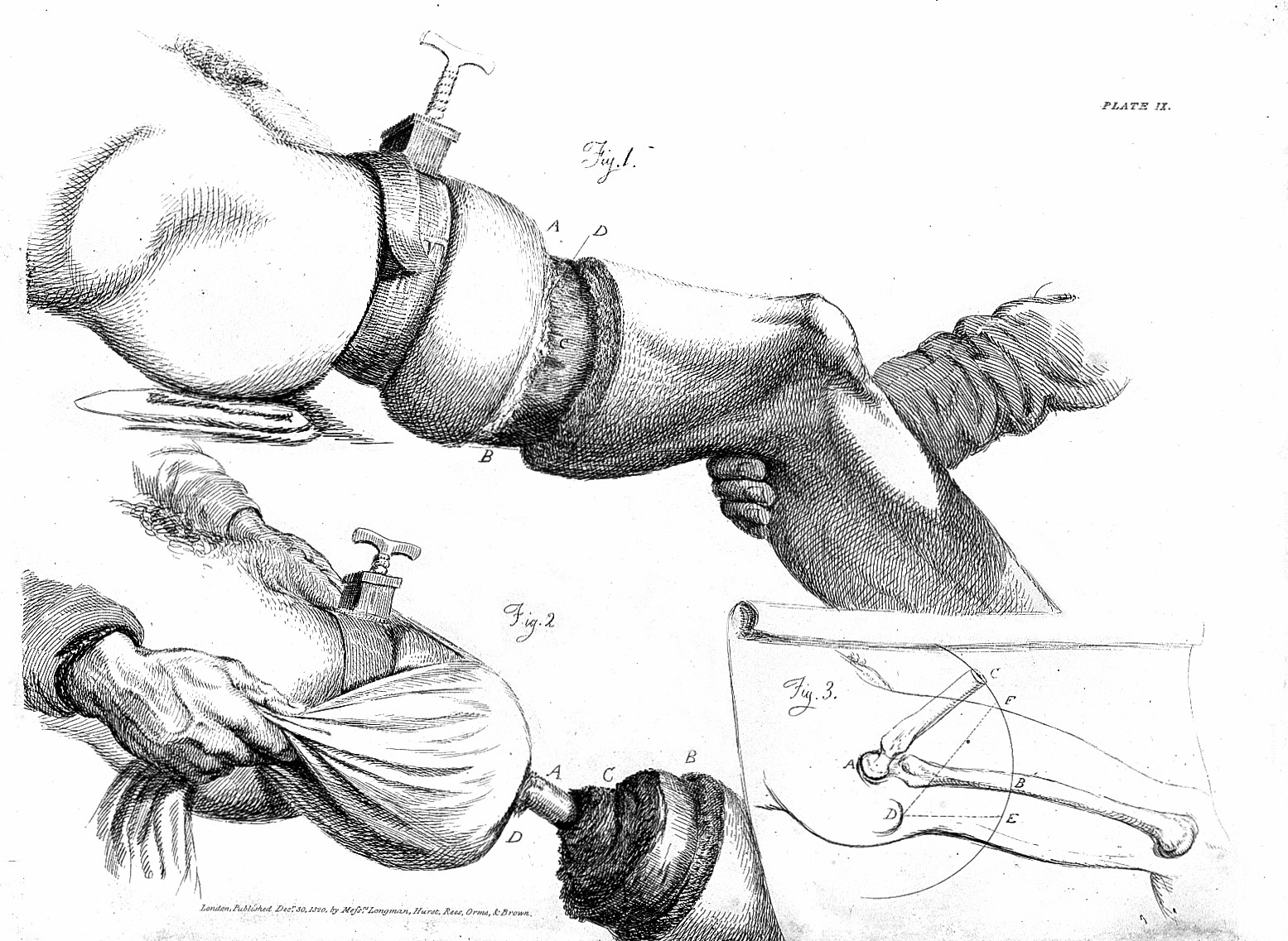 Amputation of the thigh, 19th century Rare Books Keywords: surgery, 19th century; Bell, Charles